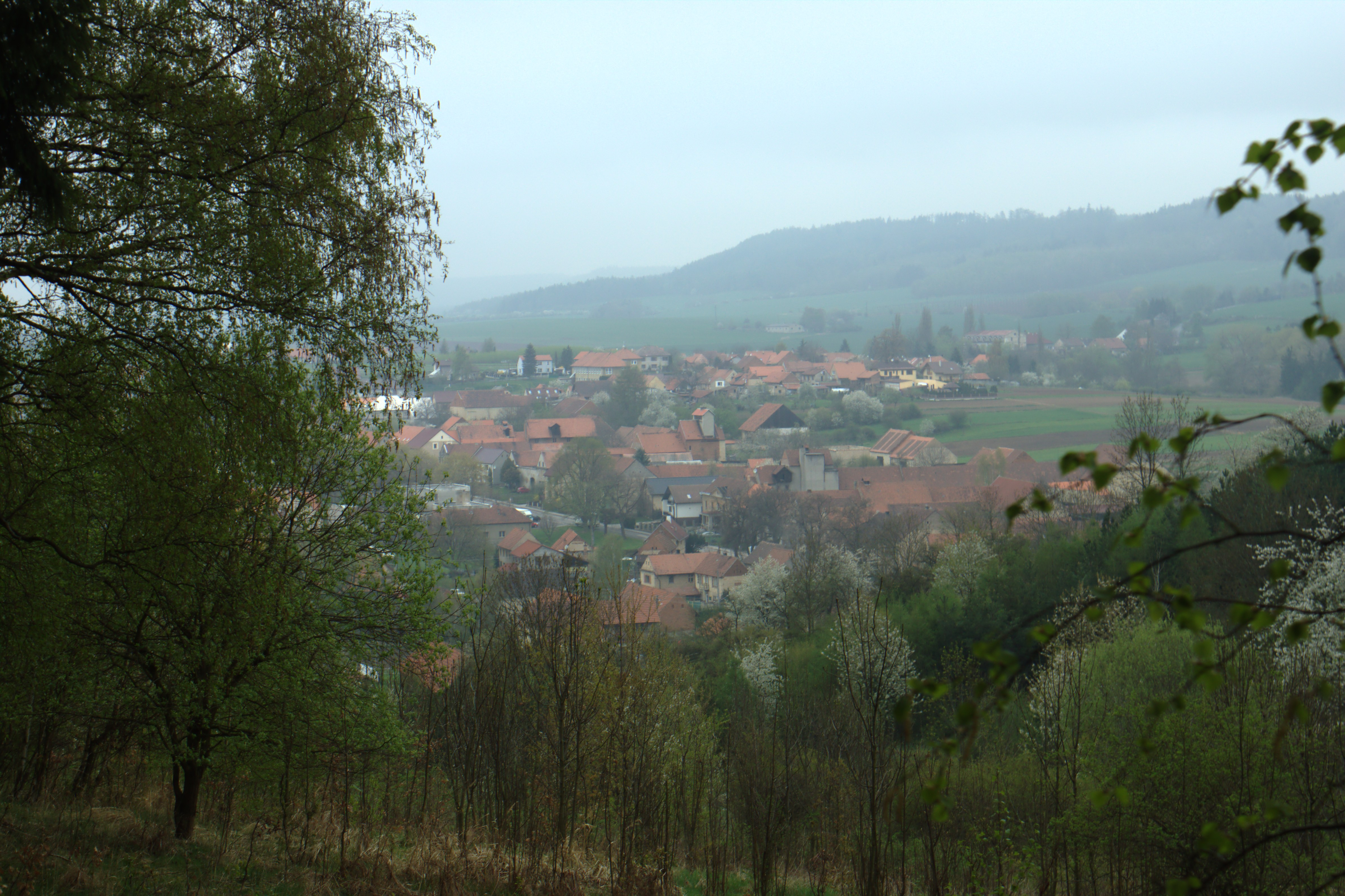 Town of Hředle in Rakovník District, Central Bohemian Region, CZ